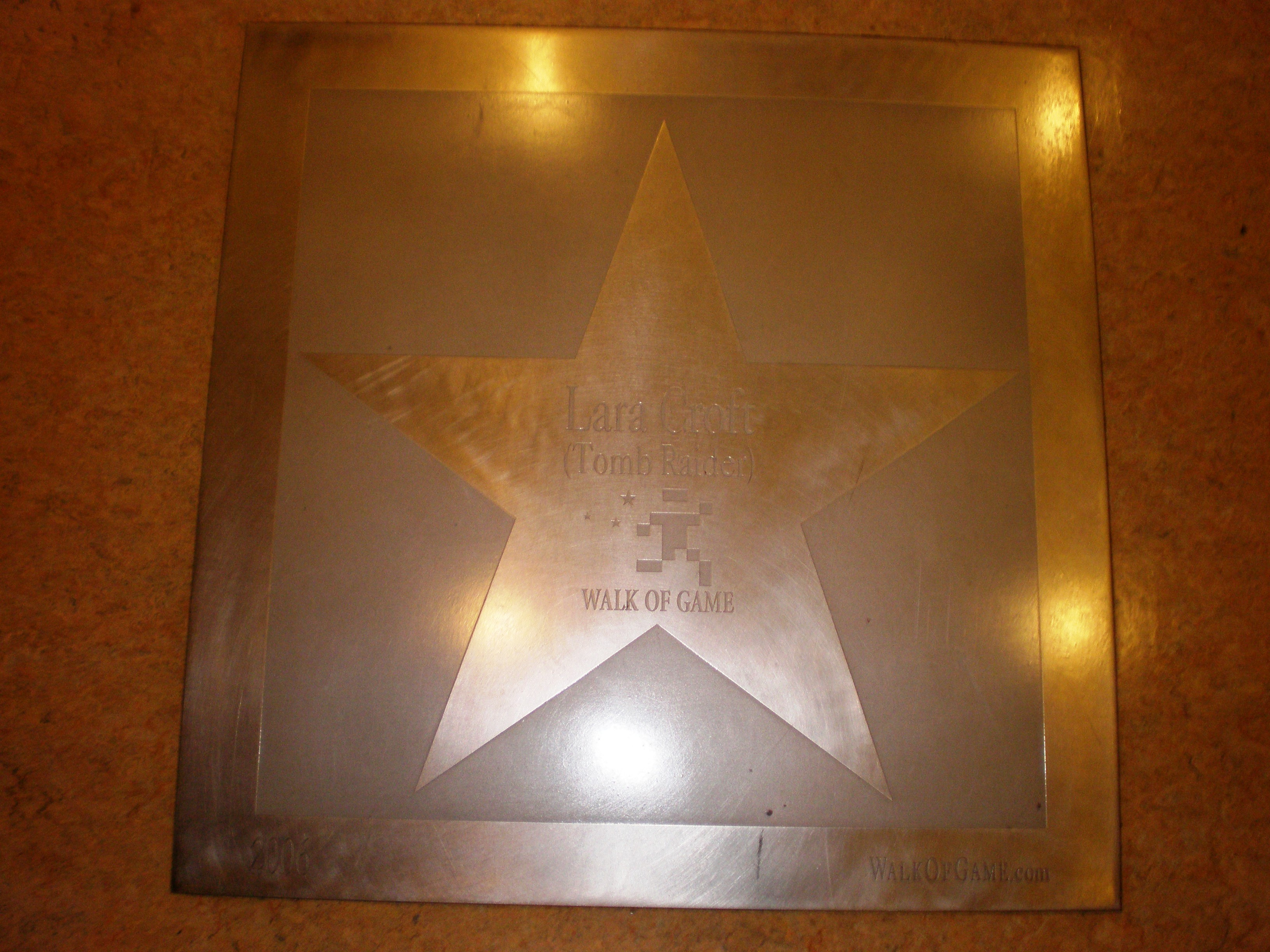 The star for Lara Croft from Tomb Raider at the Walk of Game in the Metreon in San Francisco, California.